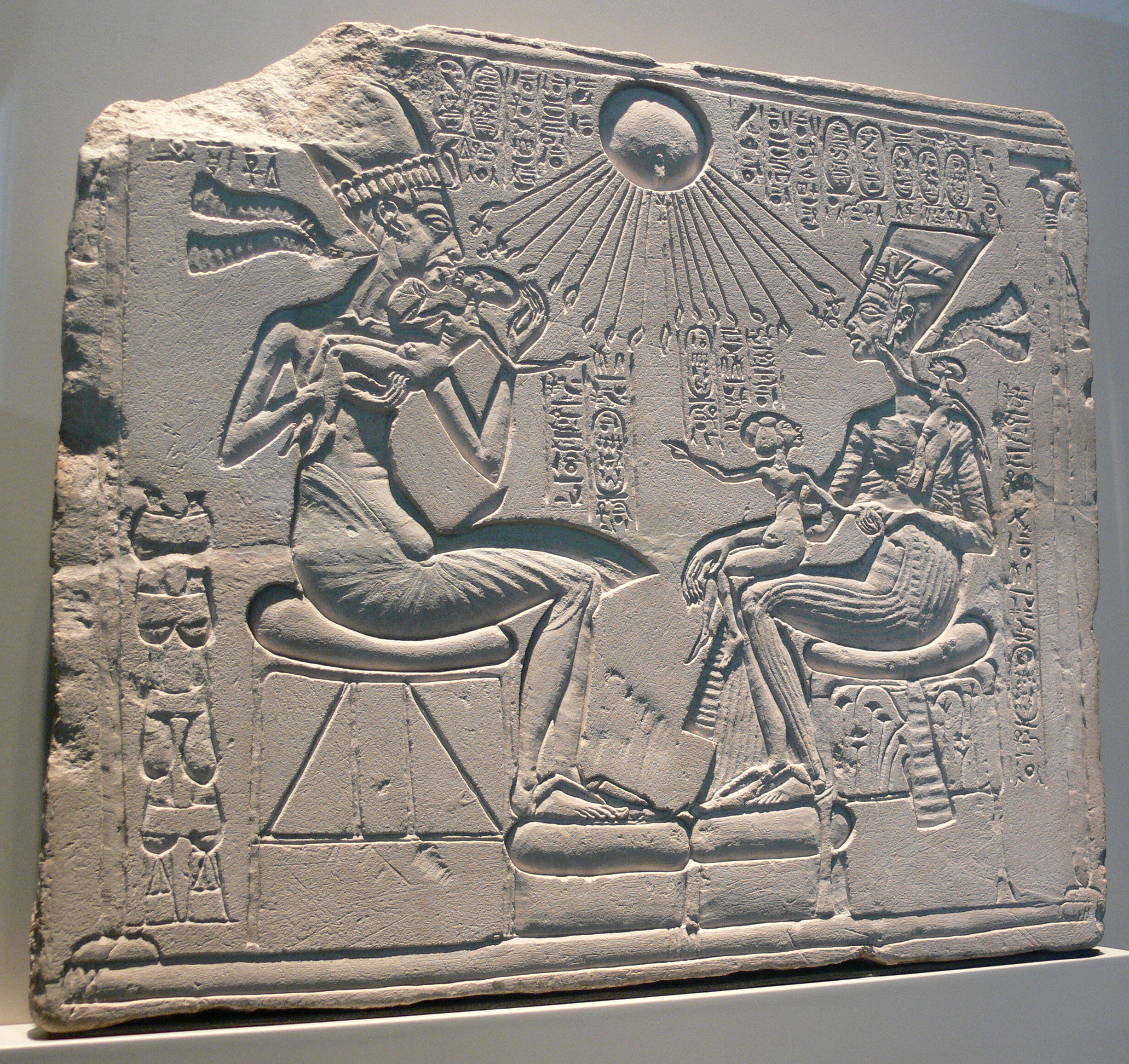 A house altar showing Akhenaten, Nefertiti and three of their daughters. 18th dynasty, reign of Akhenaten